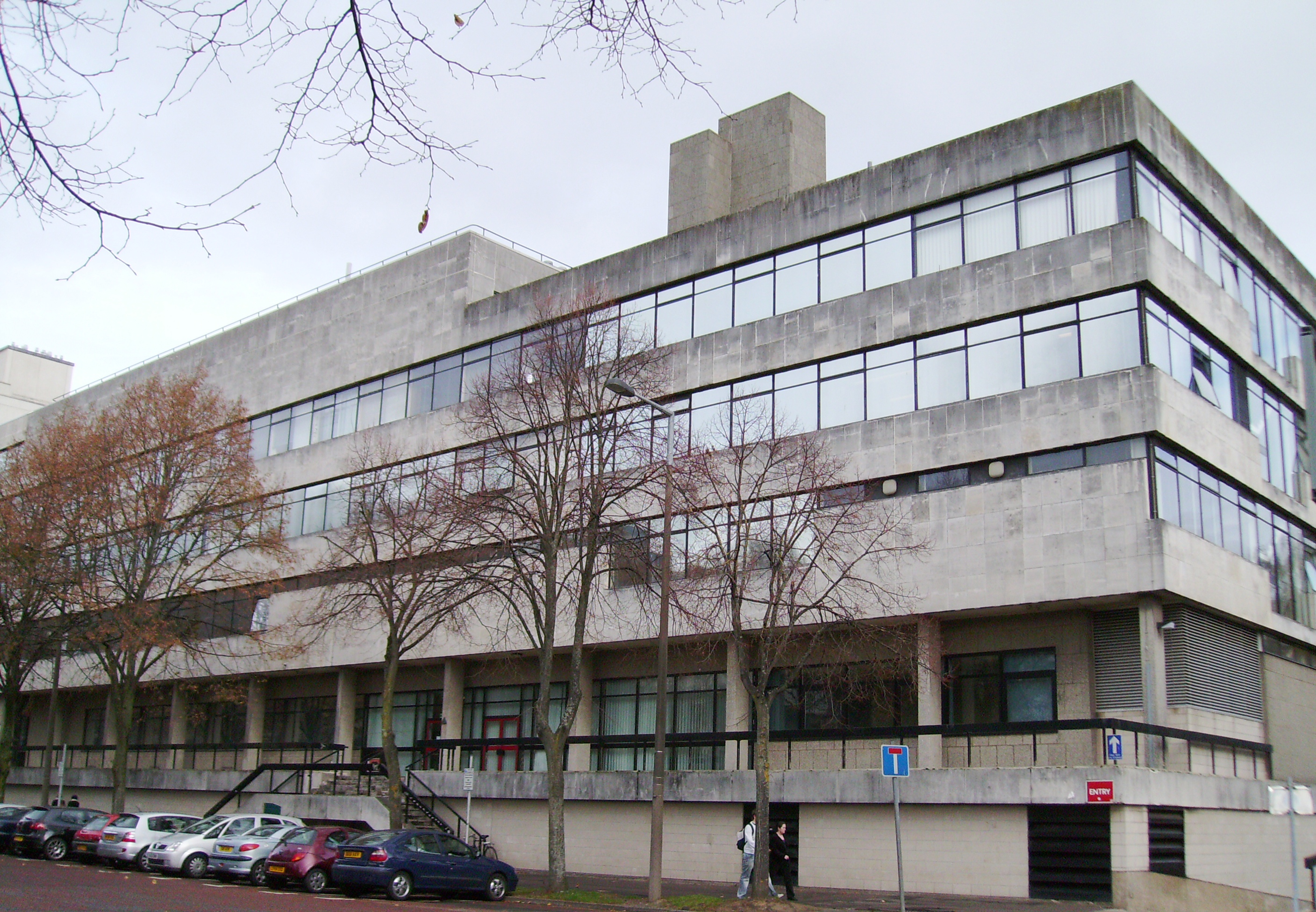 Biosciences Building (University), Cathays Park, Cardiff, Wales